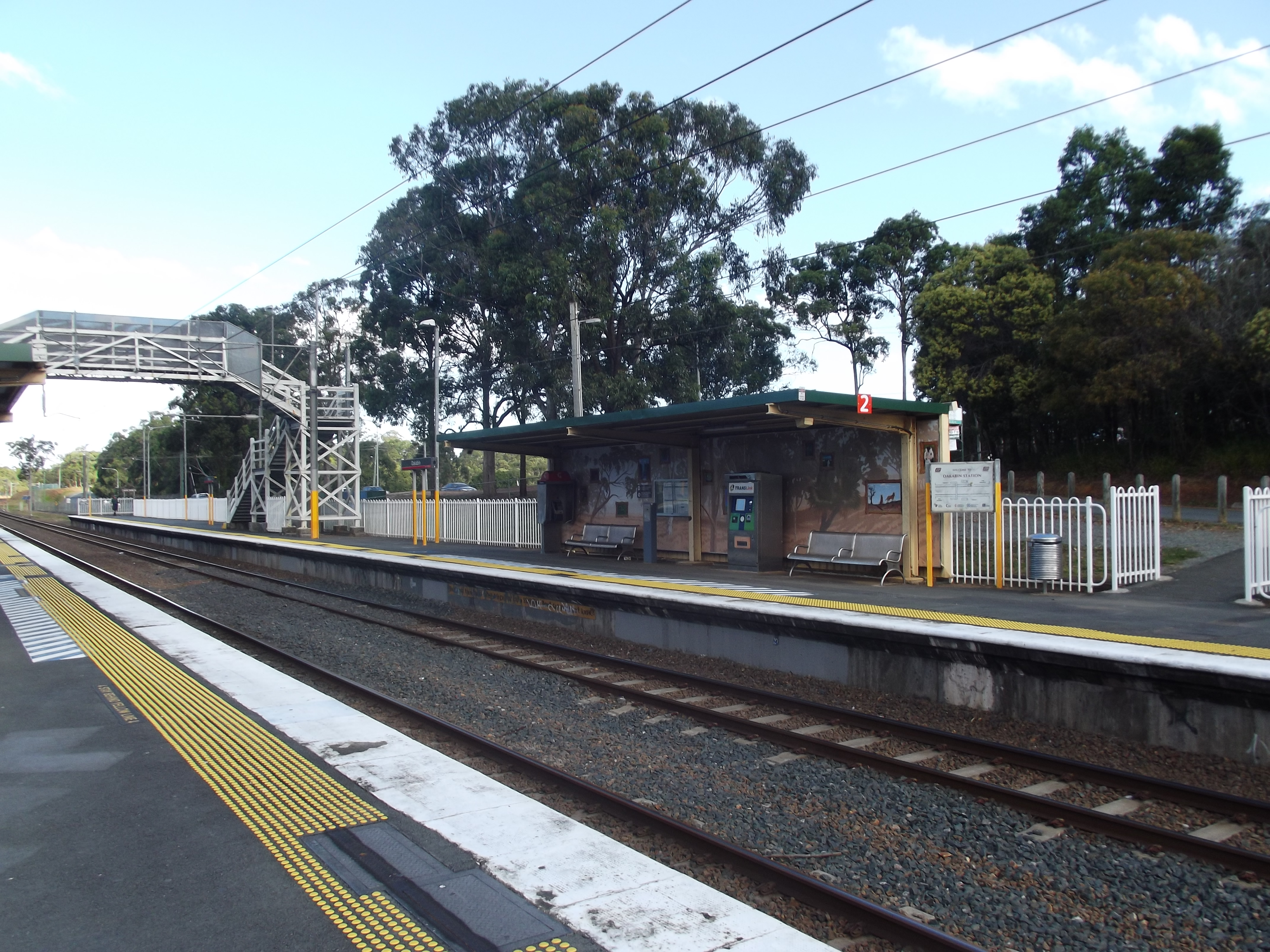 A photo of the Dakabin railway station operated by TransLink, located in Brisbane, Queensland.